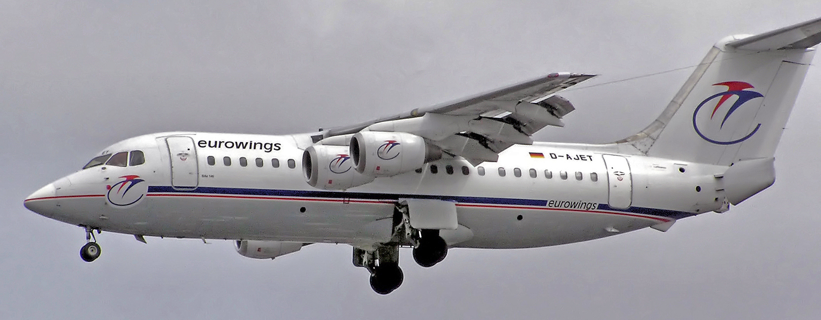 Eurowings BAe 146-200 (D-AJET) landing at London Heathrow Airport, England.